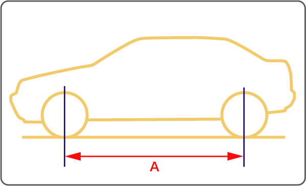 An illustration of the wheelbase that is a car terminology. A range shown in "A" is a wheelbase.